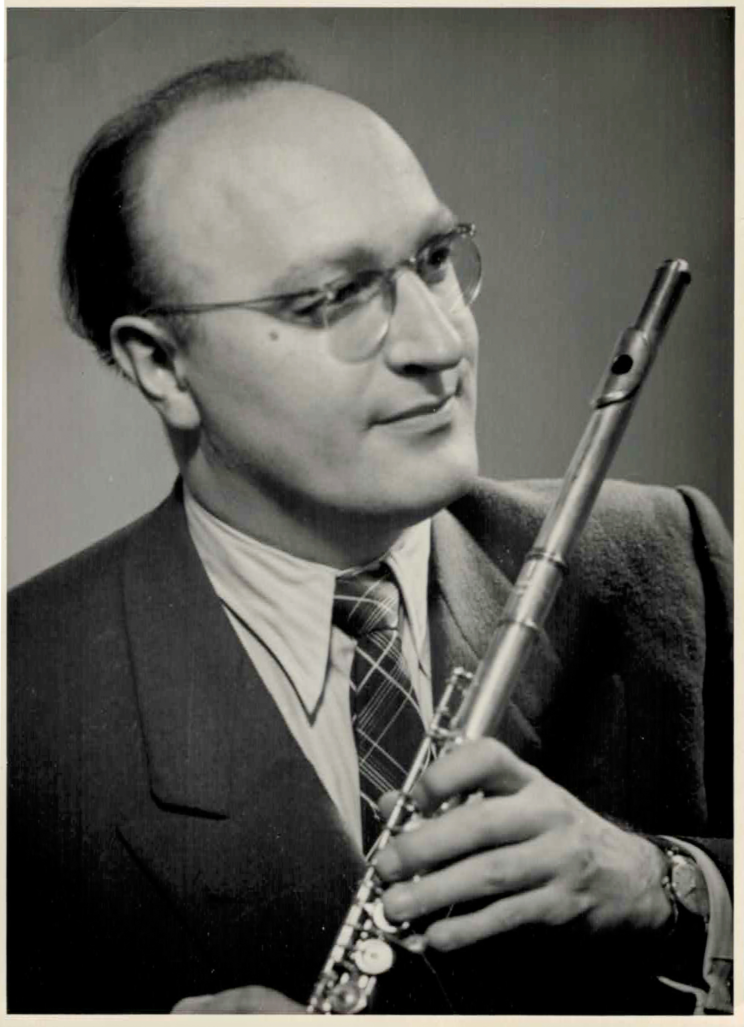 Portrait of Erwin Milzkott (1913-1986)